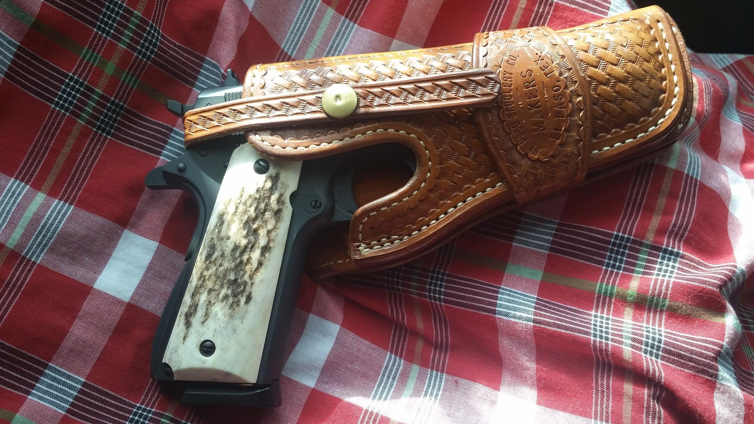 El Paso Saddlery leather holster, outside waistband, single retention strap, basketweave tooling, molded for M1911 semiauto pistol.